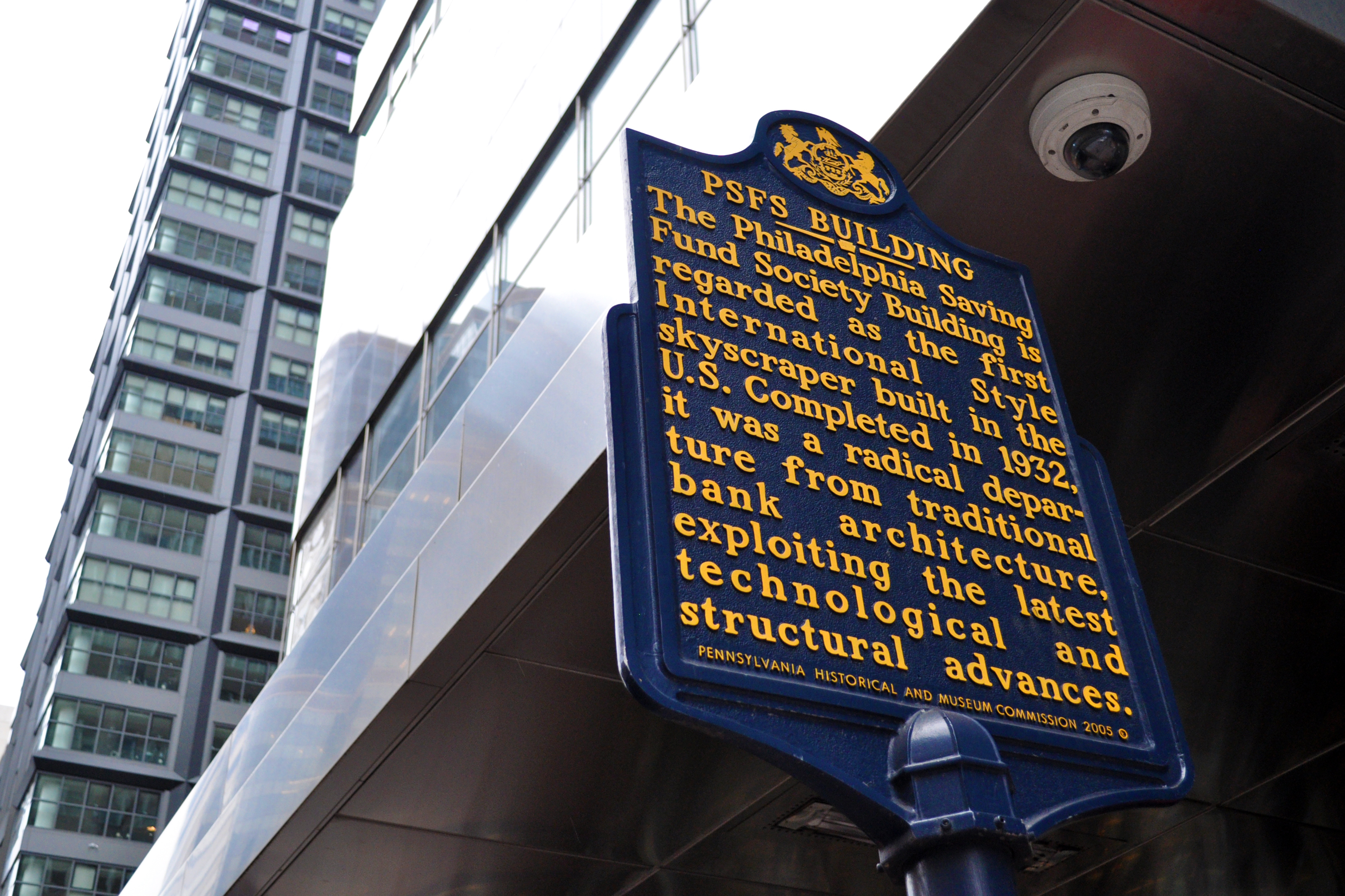 PSFS Building. The Philadelphia Saving Fund Society Building is regarded as the first International Style skyscraper built in the U.S. Completed in 1932, it was a radical departure from traditional bank architecture, exploiting the latest technological and structural advances. (Historical Marker at 1200 Market St. Philadelphia PA - Pennsylvania Historical & Museum Commission 2005)